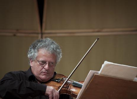 Presentation of the Arditti Quartet in the auditorium of the São Paulo Museum of Art, Brazil. July 15th, 2011.